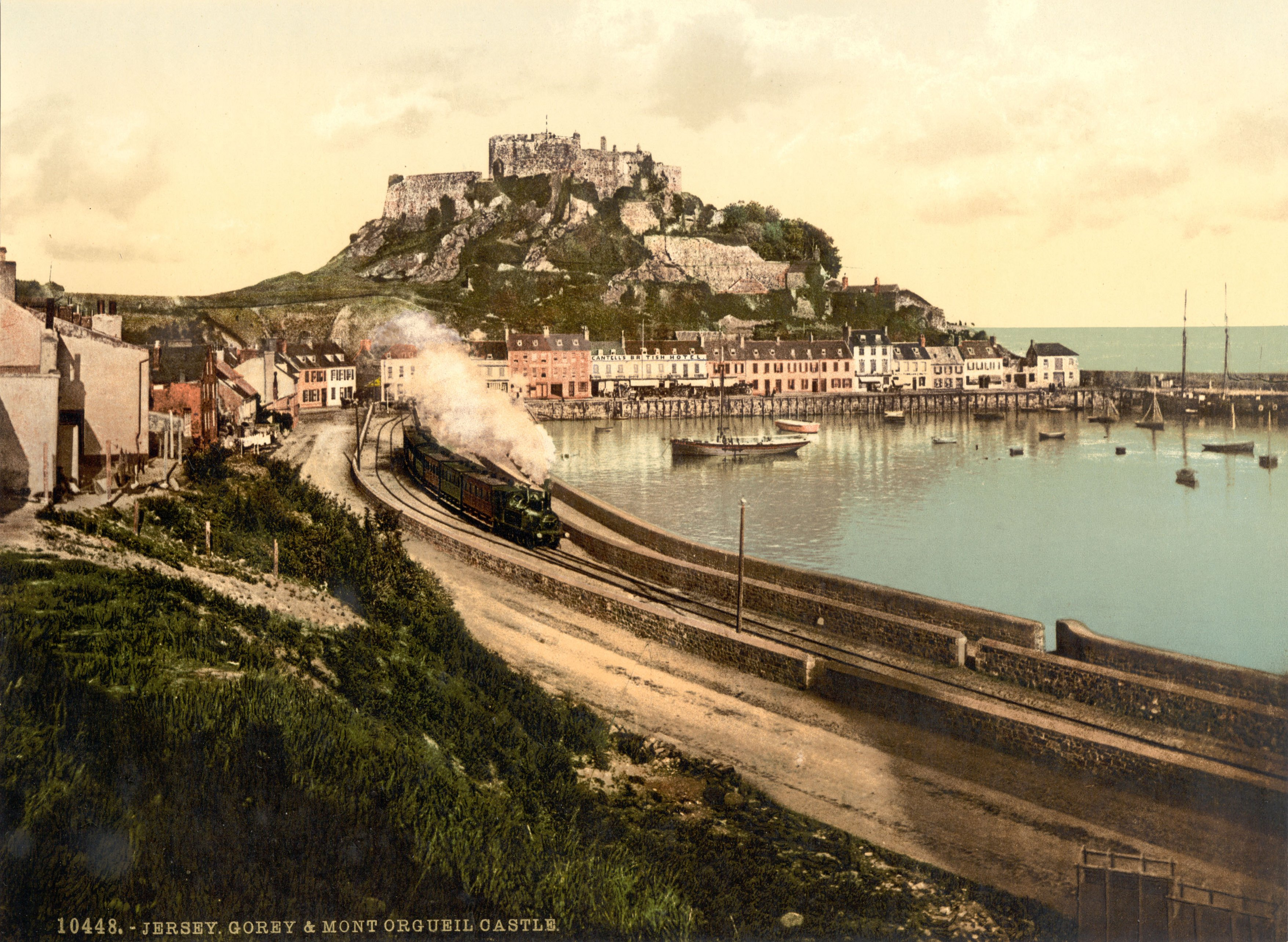 Title from the Detroit Publishing Co., Catalogue J-foreign section, Detroit, Mich. : Detroit Publishing Company, 1905.; Print no. "10448".; Forms part of: Views of England in the Photochrom print collection.